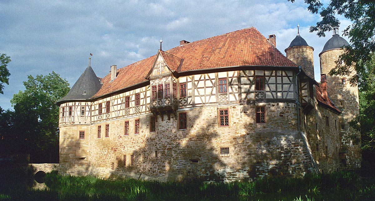 photo of Irmelshausen taken from south-west side, two photos taken as same time and electronically stitched together